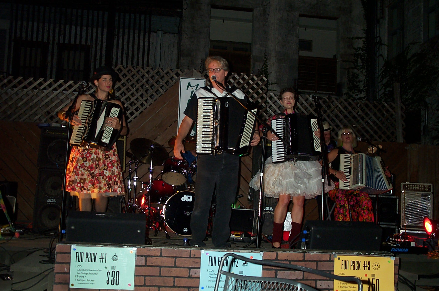 Mike N Molly's, Champaign, Illinois, USA